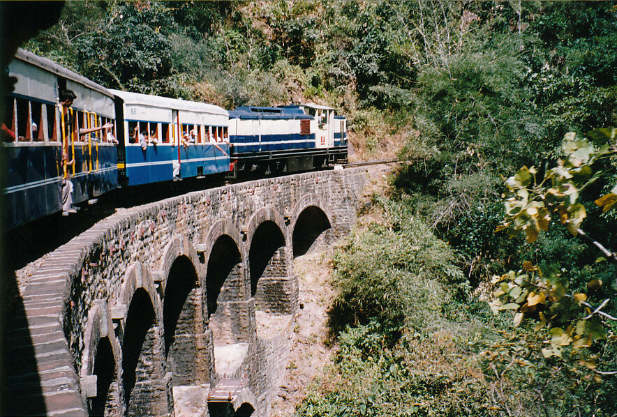 narrow gauge Kalka-Shimla train, Himachal Pradesh, India